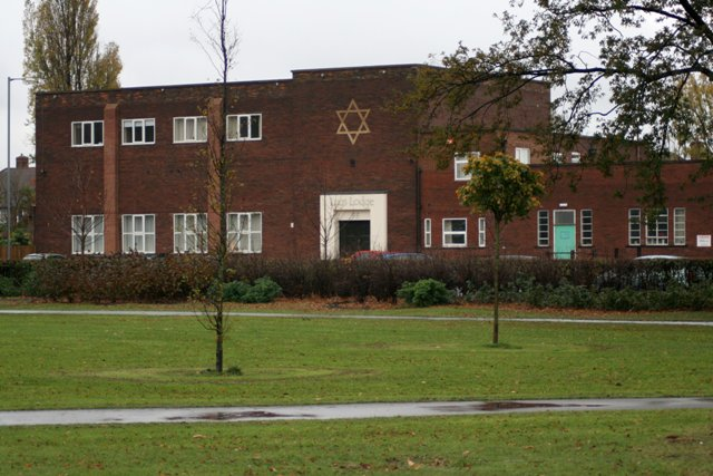 Middlesbrough Hebrew Congregation (Lugs Lodge Synagogue), Park Road South, Middlesbrough, North Yorkshire, seen from the northwest from Albert Park